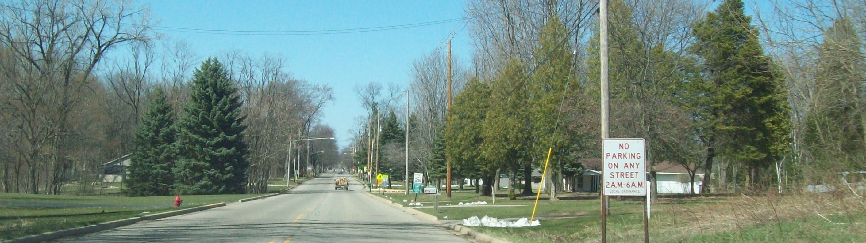 View of Centreville, entering North from Klinger Lake Rd., about to change to Clark St.